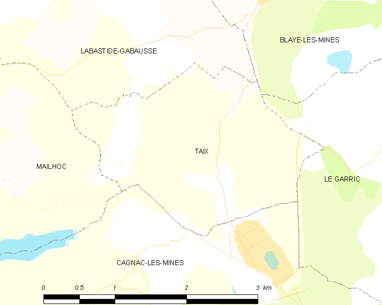 Map of French municipality Taïx